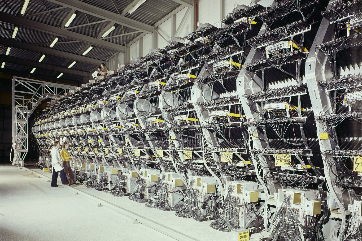 An overview of the experimental setup forming the CDHS/WA1 experiment at CERN. It was used from 1976 to 1984 to study deep inelastic neutrino interactions with iron. The neutrino beam reaches the detector at the right-hand side of the picture.